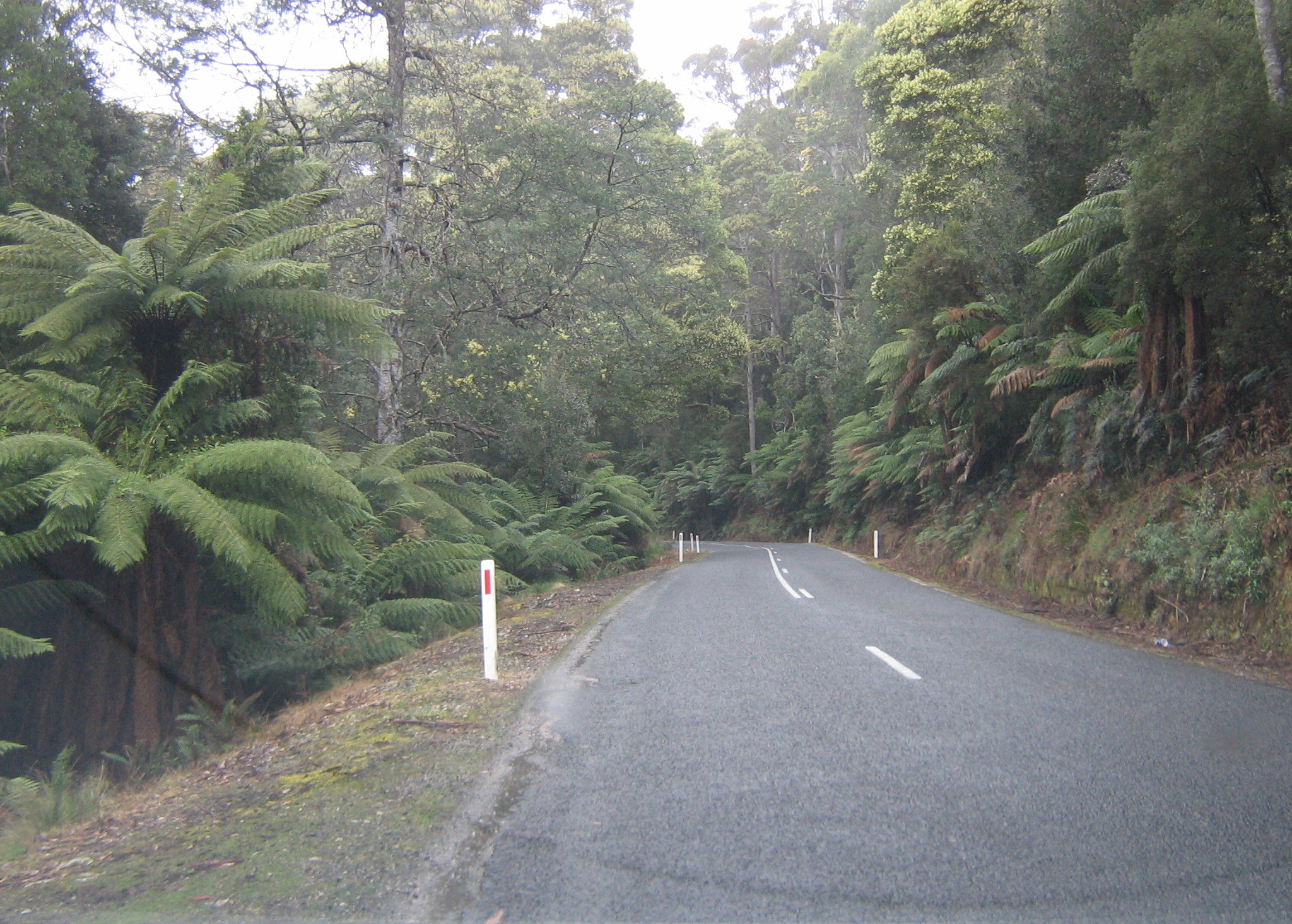 Tasman Highway west of St Helens